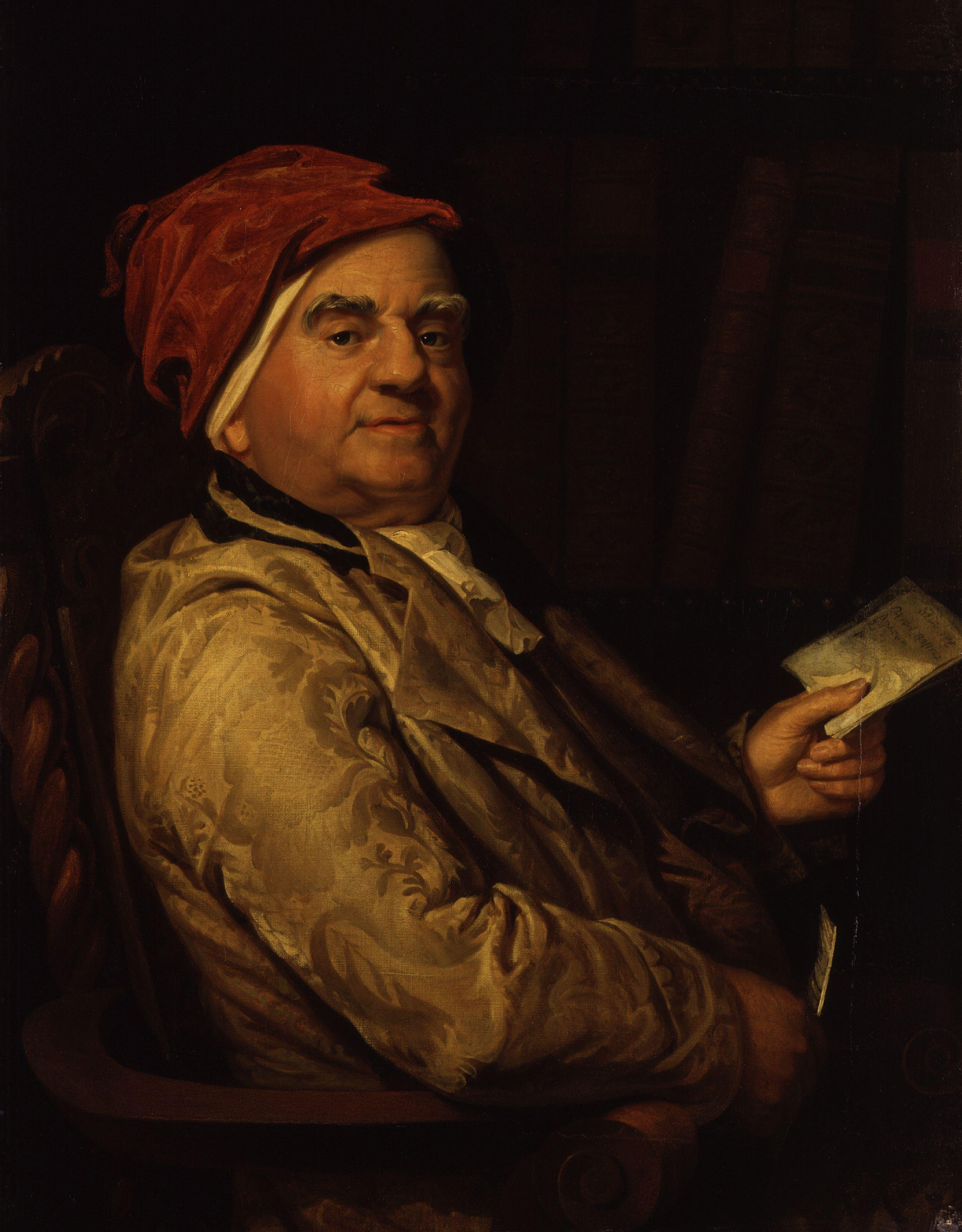 Samuel Parr, by George Dawe (died 1829). All images in this batch have been confirmed as author died before 1939 according to the official death date listed by the NPG.